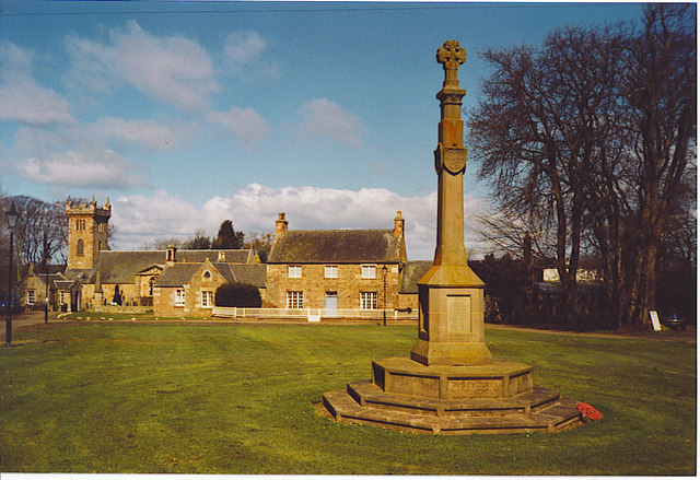 Dirleton, War Memorial. The memorial sits on an area of village green. The parish church is behind it, far left.